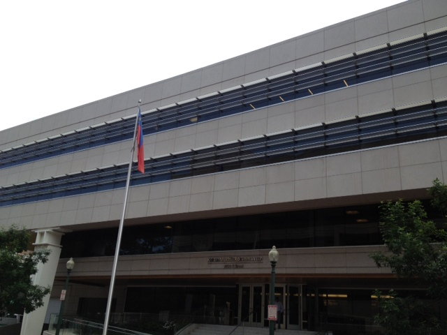 Embassy of Liechtenstein in Washington, DC